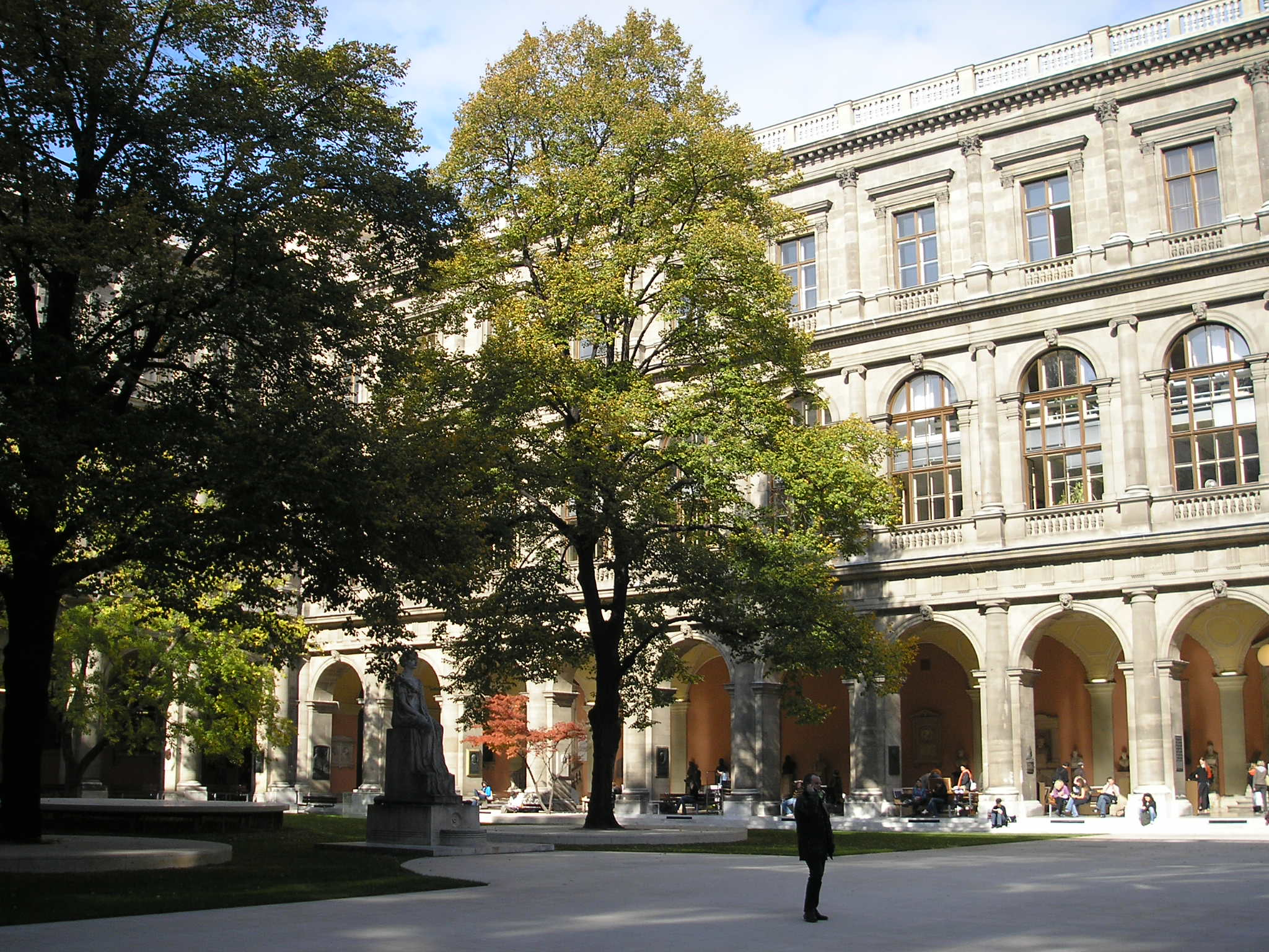 Image of the courtyard of the University of Vienna.